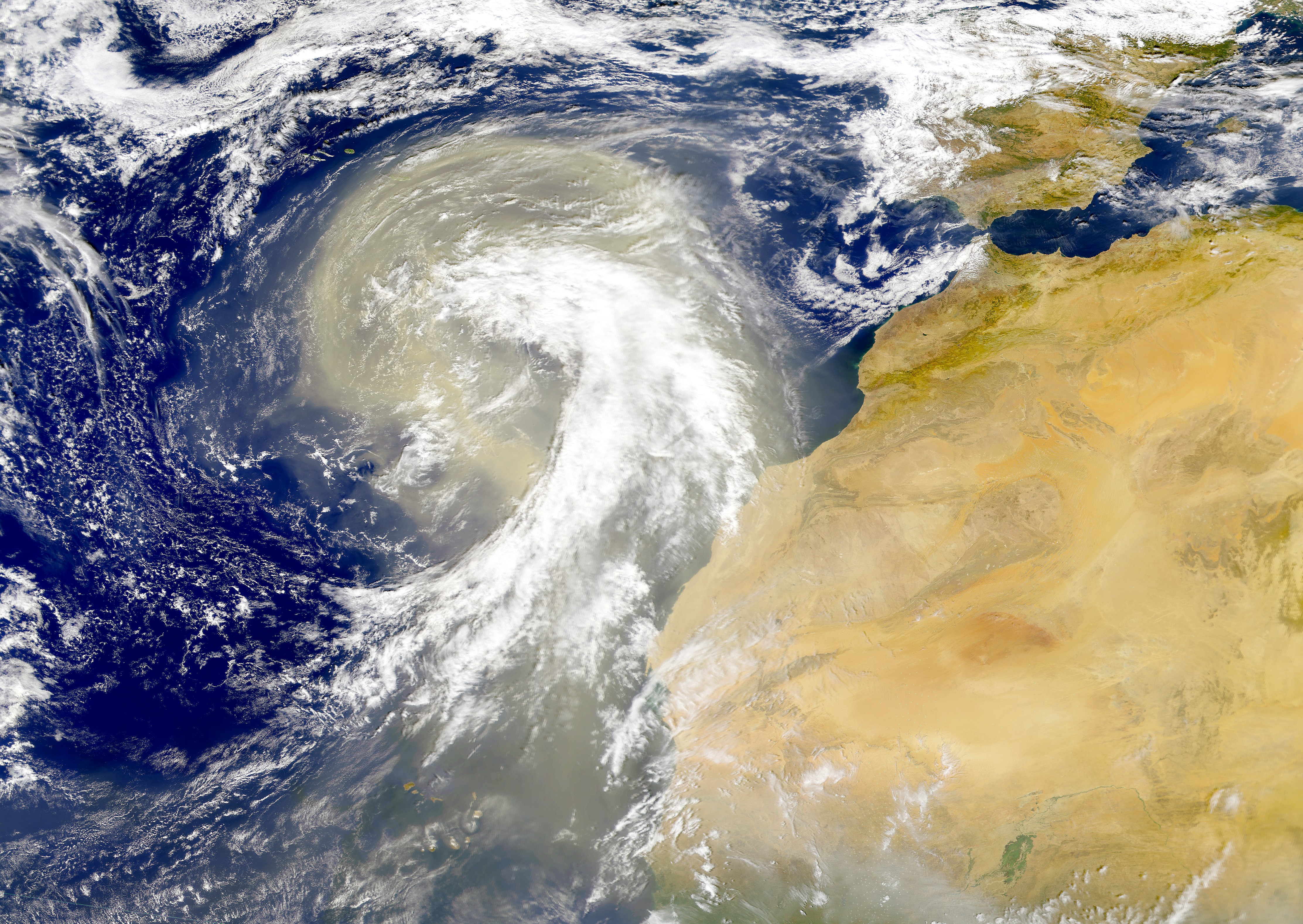 Dust plume off the Sahara desert over the northeast Atlantic Ocean. The Azores are visible at the northwest edge of the dust plume in this SeaWiFS image. The Cape Verde Islands can be seen through the dust near the bottom of the image. Sensor: OrbView-2/SeaWiFS